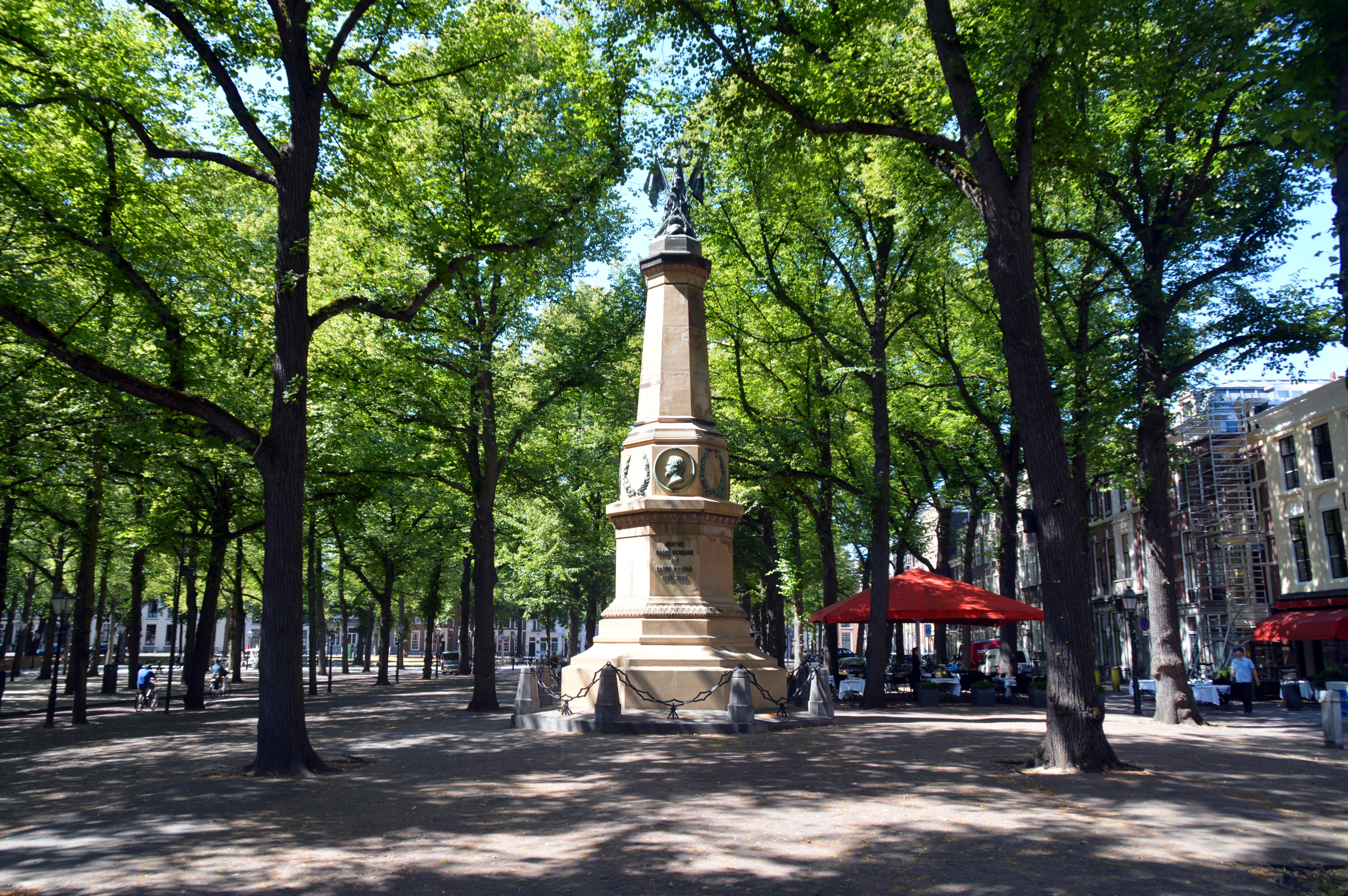 Karel Bernhard of Saxony-Weimar-Eisenach Memorial in The Hague, Year of construction: 1866. Architect: Johan Philip Koelman and Hugo Pieter Vogel